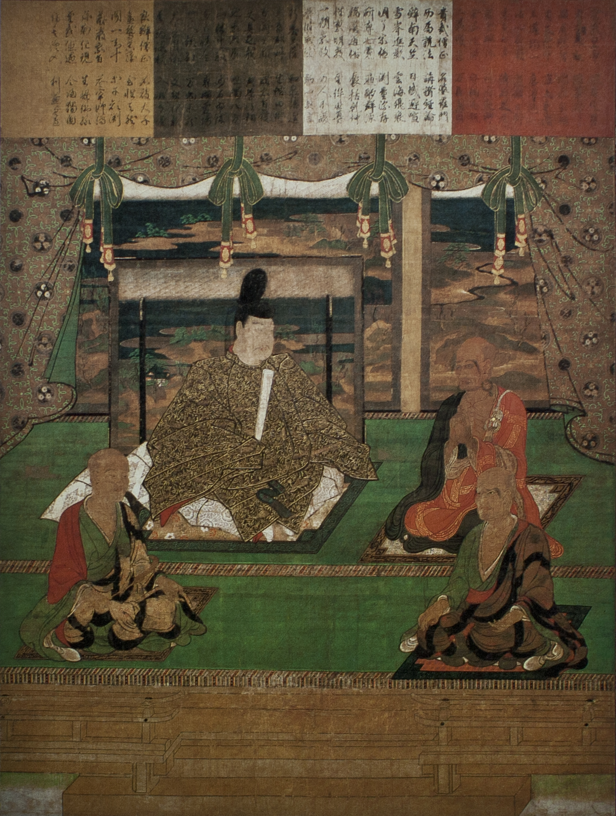 1377, by Kanjō, Todaiji, Nara, Japan